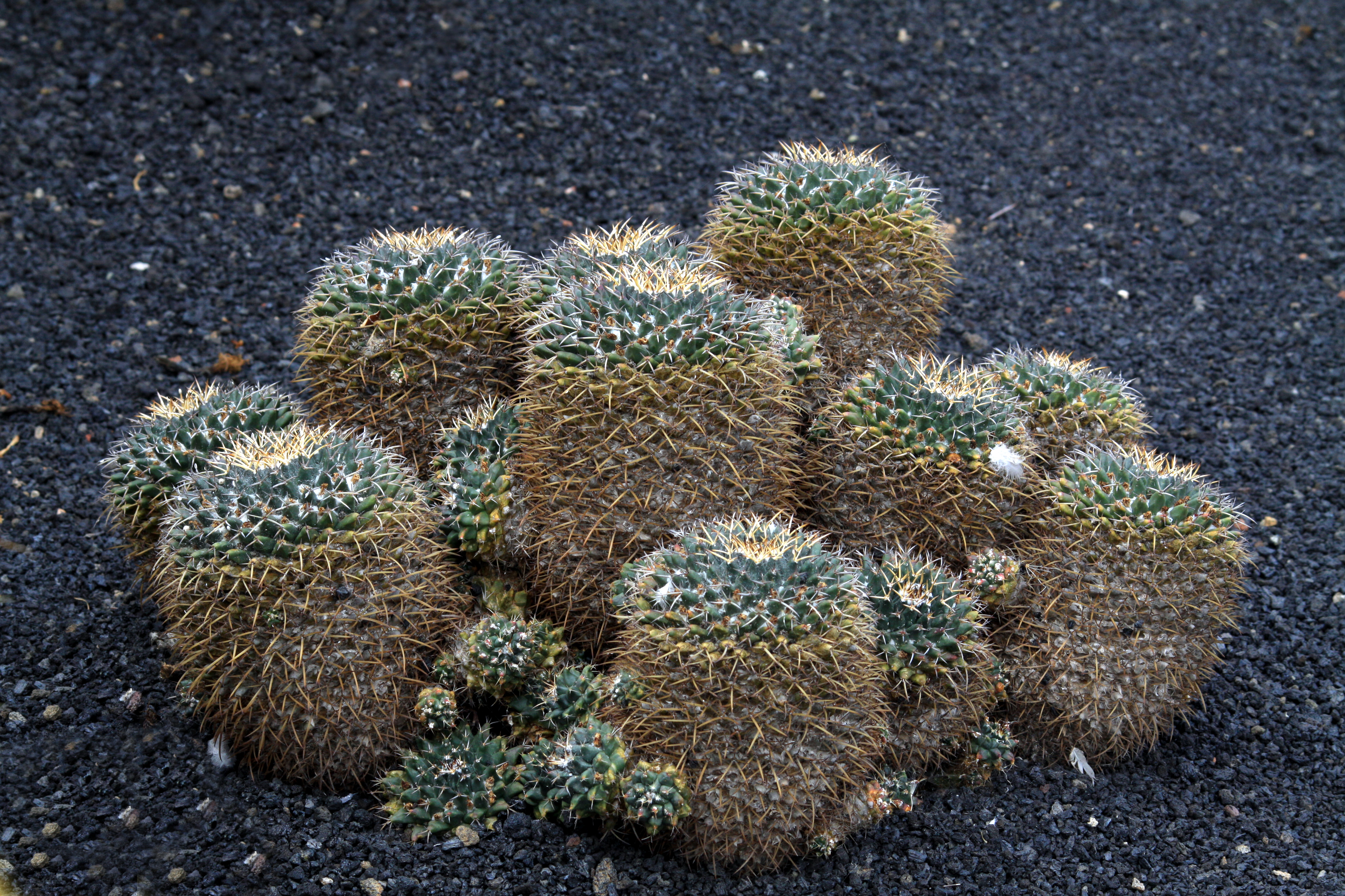 Mammillaria magnimamma in the Jardin de Cactus in Guatiza on Lanzarote, The Canary Islands, Spain